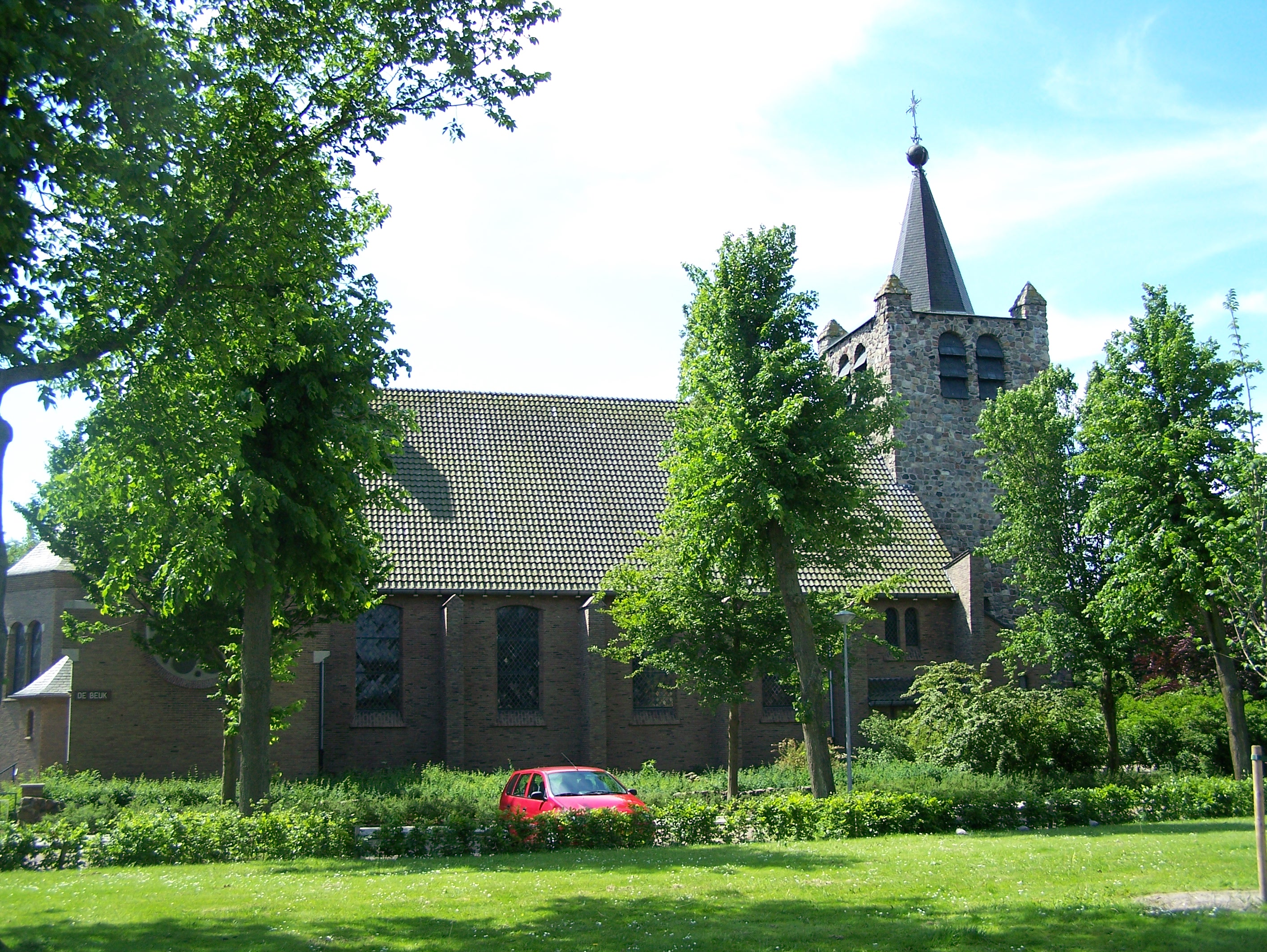 Church "Christus Koning" (1939/1940) at the Prof. G. Molierestraat in Wieringerwerf. By Hub. M. Martens architect.